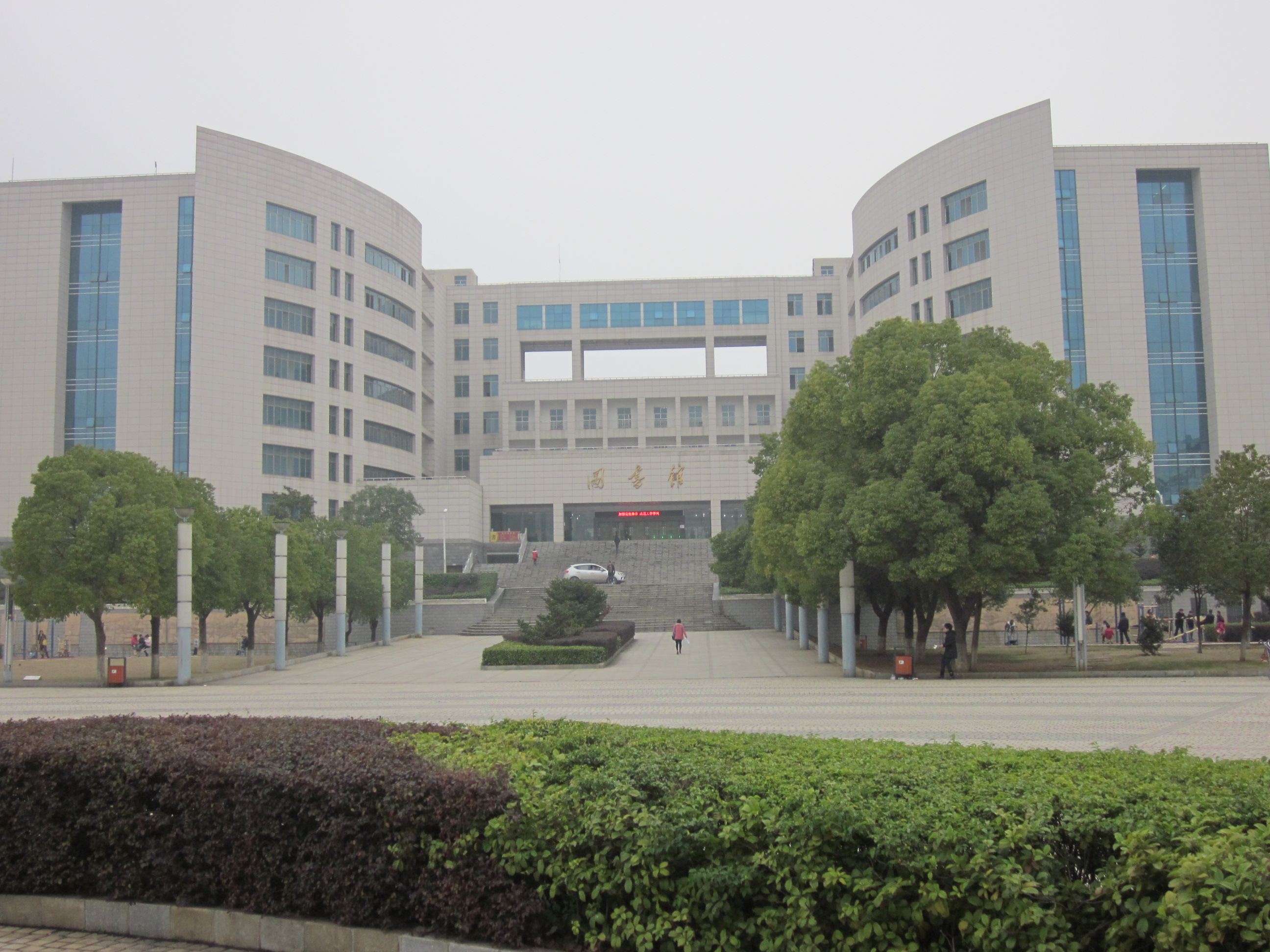 Hunan University of Humanities, Science and Technology （simplified